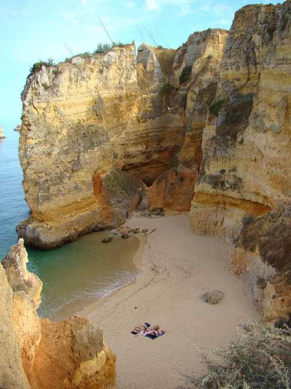 Dona Ana Beach